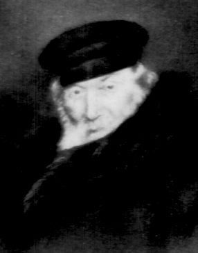 Rabbi Yisrael Meir Kagan, (1838-1933), aged 91 when he visited the Polish Prime Minister.